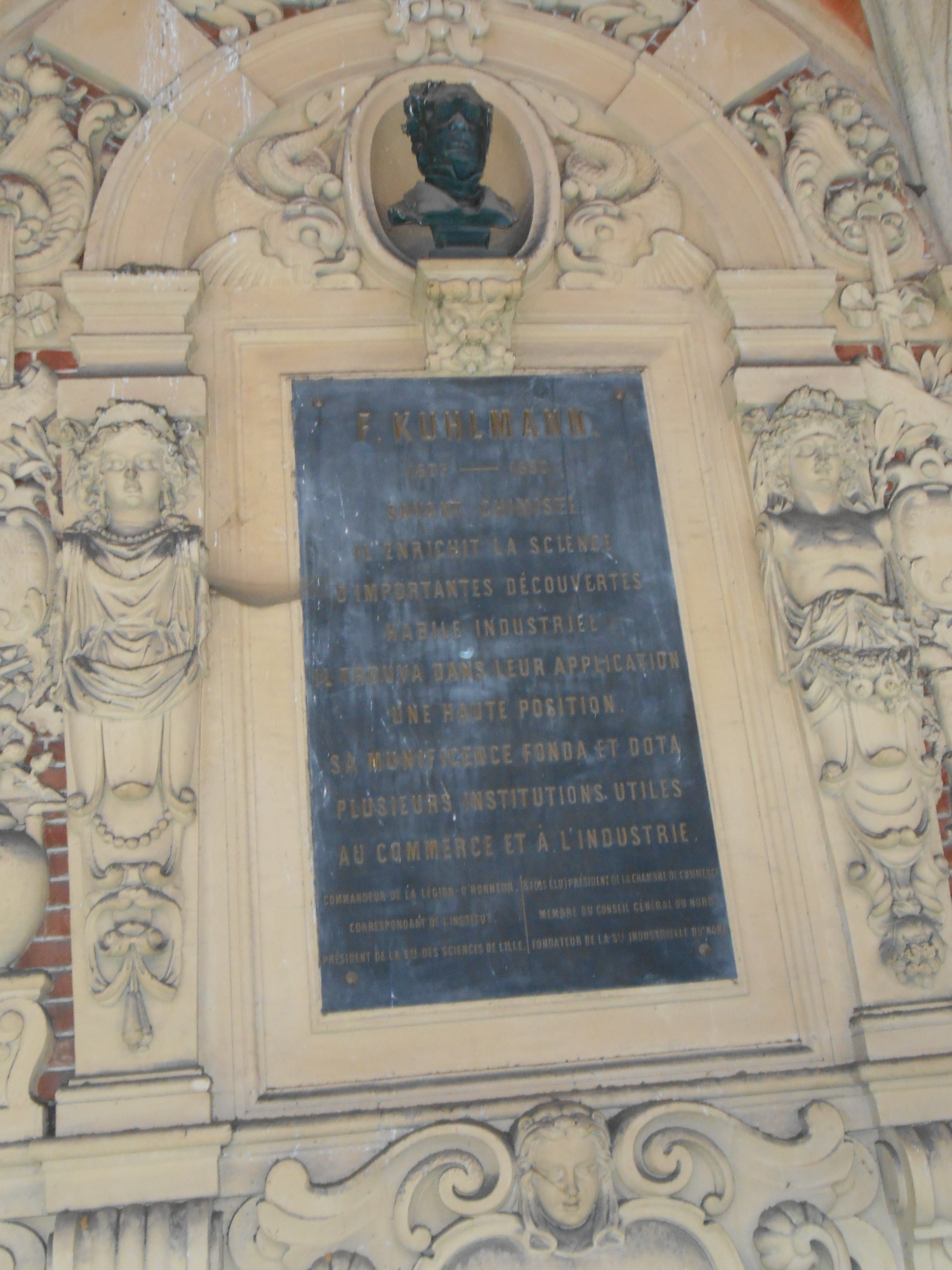 Frederic Kuhlmann at Vielle Bourse, Lille, France Chemist